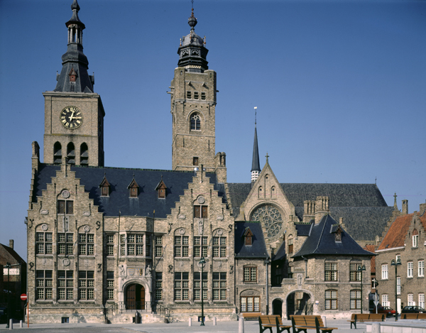 Ref.: PMa_B_046_Diksmuide; photo: Paul M.R.Maeyaert; Stadhuis; Diksmuide; Belgium; West-Vlaanderen; Cultural heritage; Cultural heritage|Neo-Gothic; Europe|Belgium|Diksmuide; © Paul M.R. Maeyaert